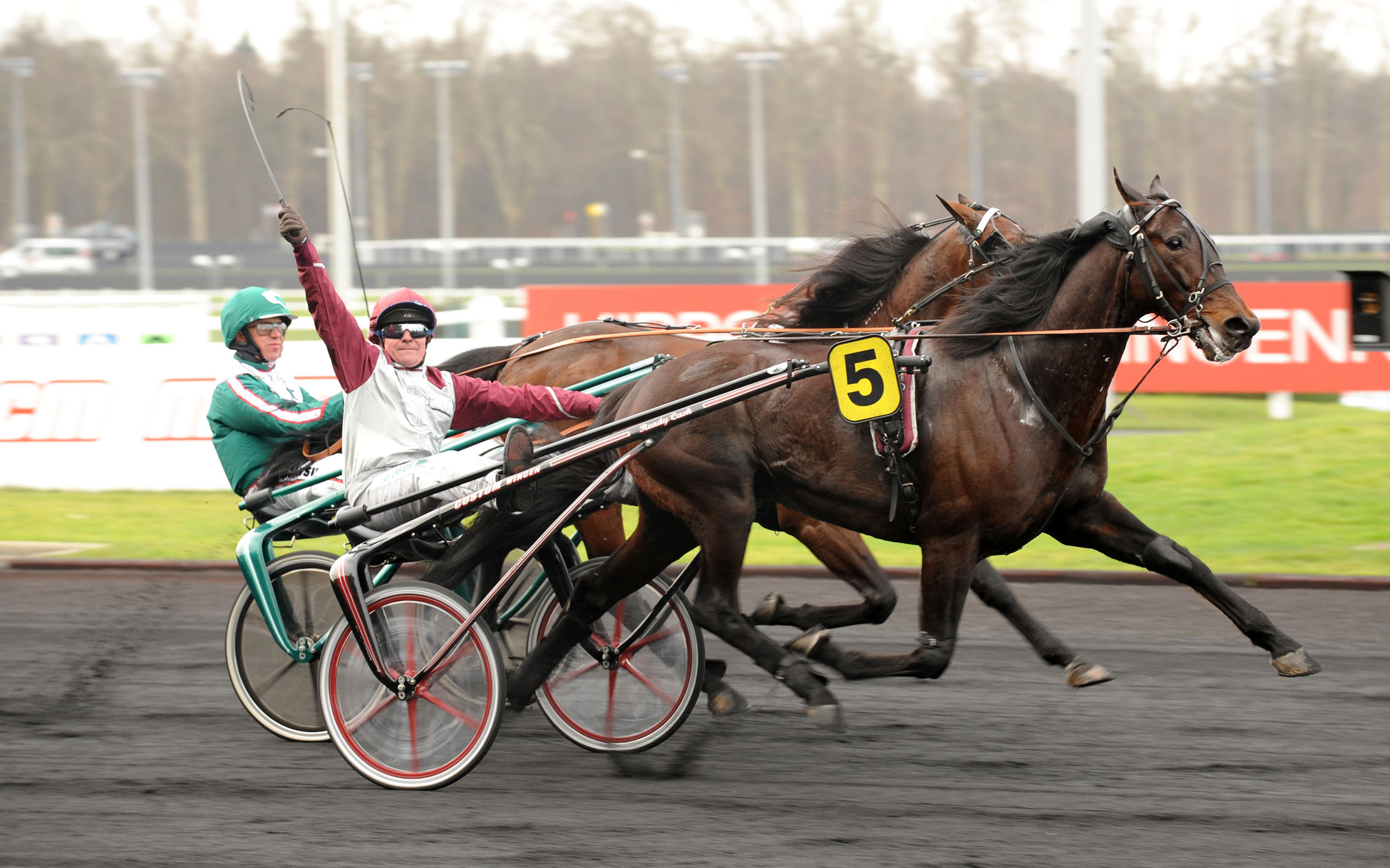 Ready Cash and driver Franck Nivard winning Prix de France 2011-02-13. Maharajah and Örjan Kihlström second place.